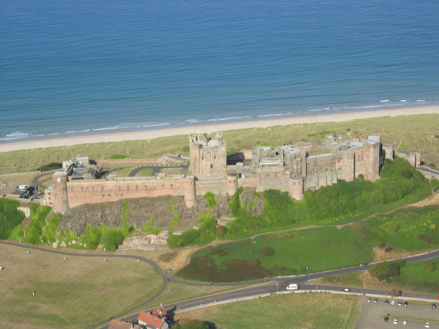 Aerial photo of Bamburgh Castle Taken from 1000 ft agl.